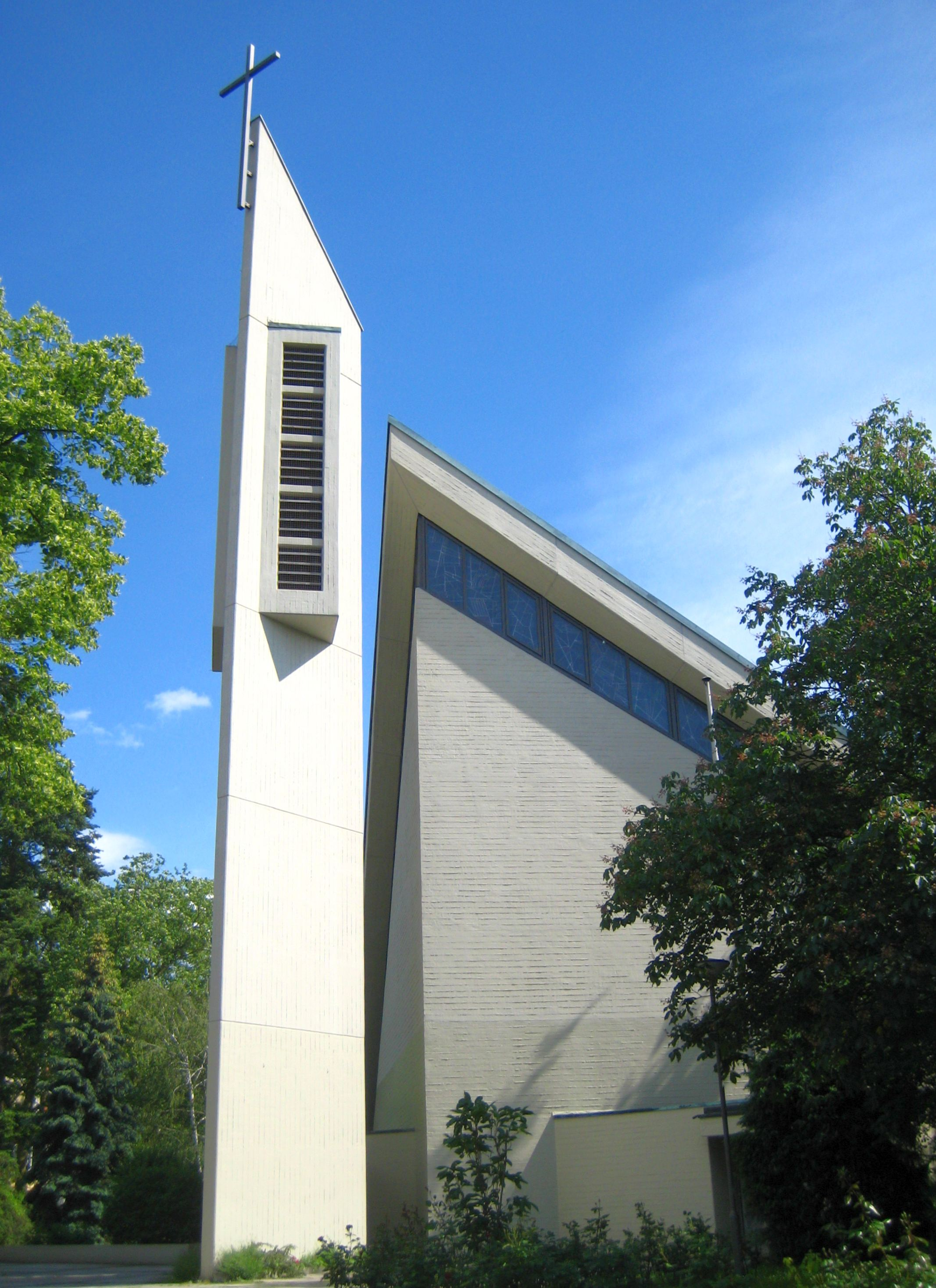 The Catholic Maria Frieden church at Kaiserstraße in Berlin-Mariendorf, built 1967-1969 by architect Günter Maiwald. The building is landmarked.